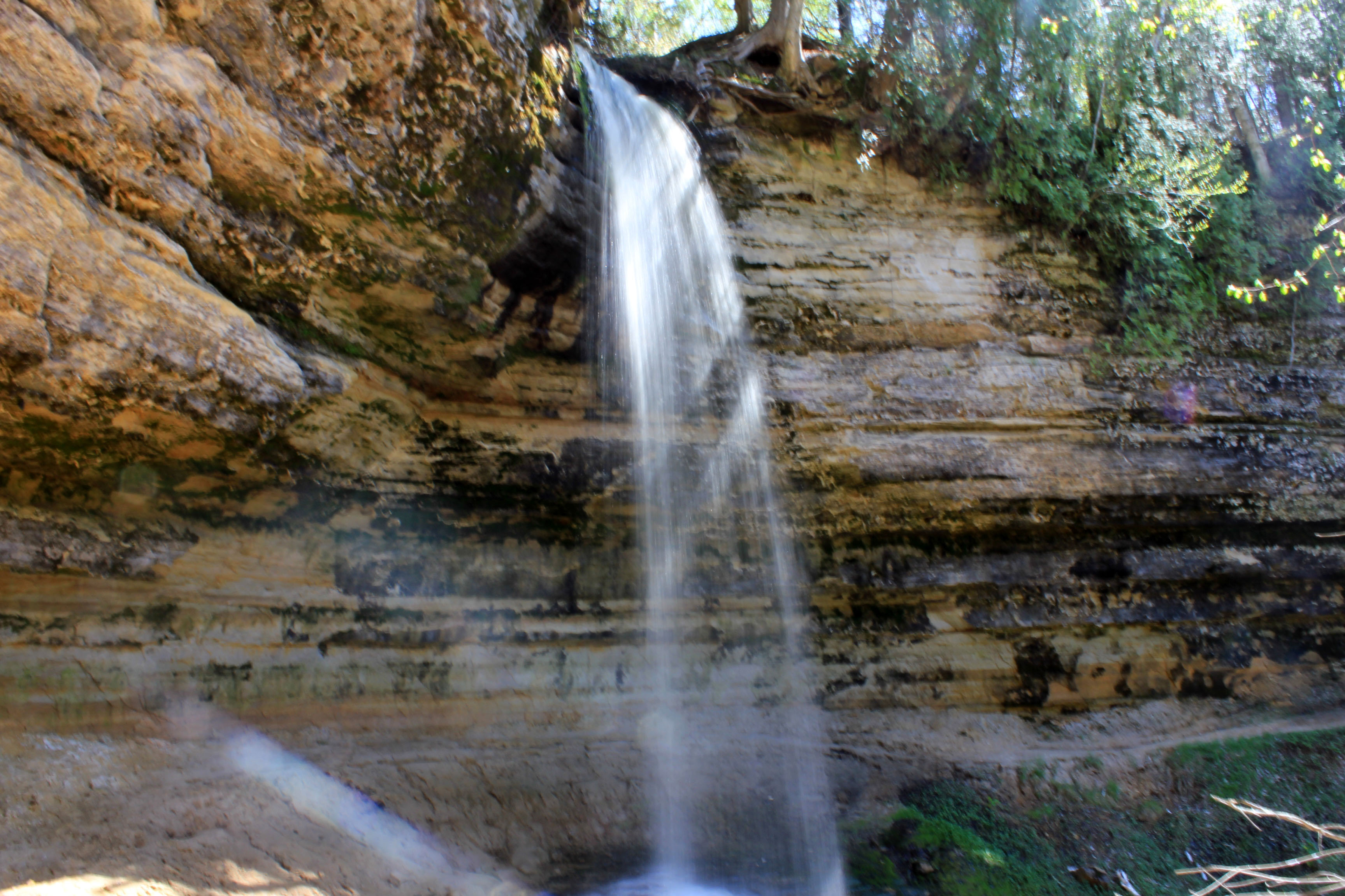 Free Public Domain photos of Pictured rocks, a long stretch of Lakeshore on Lake Superior from Munising to Grand Marais and includes several waterfalls, hiking The main closeup of Munising Falls at Pictured Rocks National Lakeshore, Michigan.